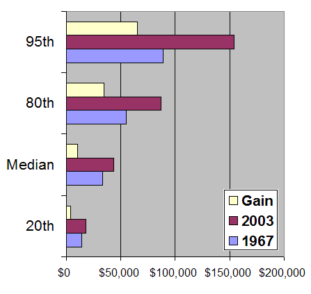 I created the graph myself using data taken from here.